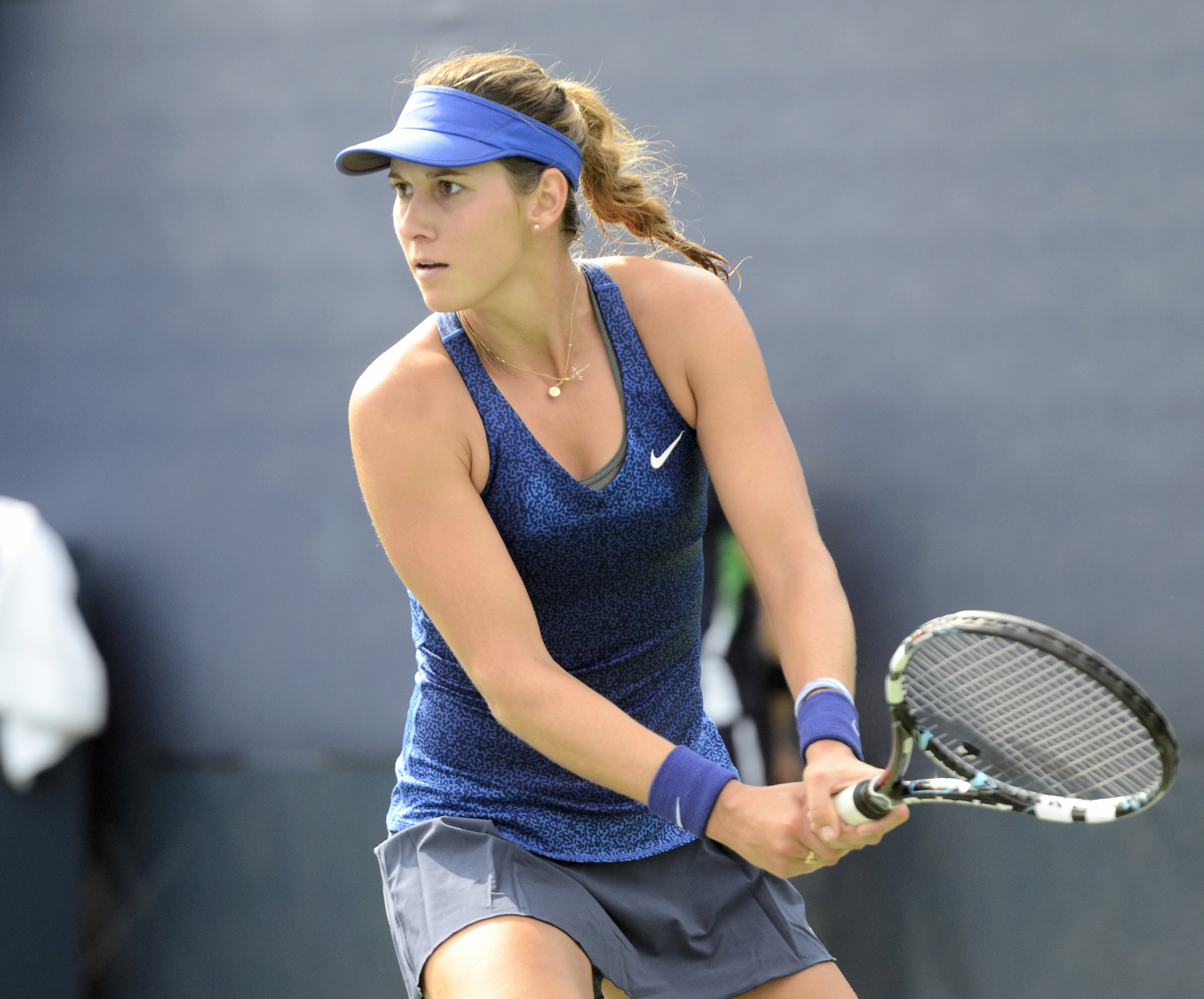 August 21, 2014 Queens, NY Maria Sanchez (USA) def. Yulia Putintseva (KAZ) This photo is from two days I went to the qualifying rounds ("the Qualies") for the US Open tennis tournament. There are hundreds more photos to come. (8/23/14)